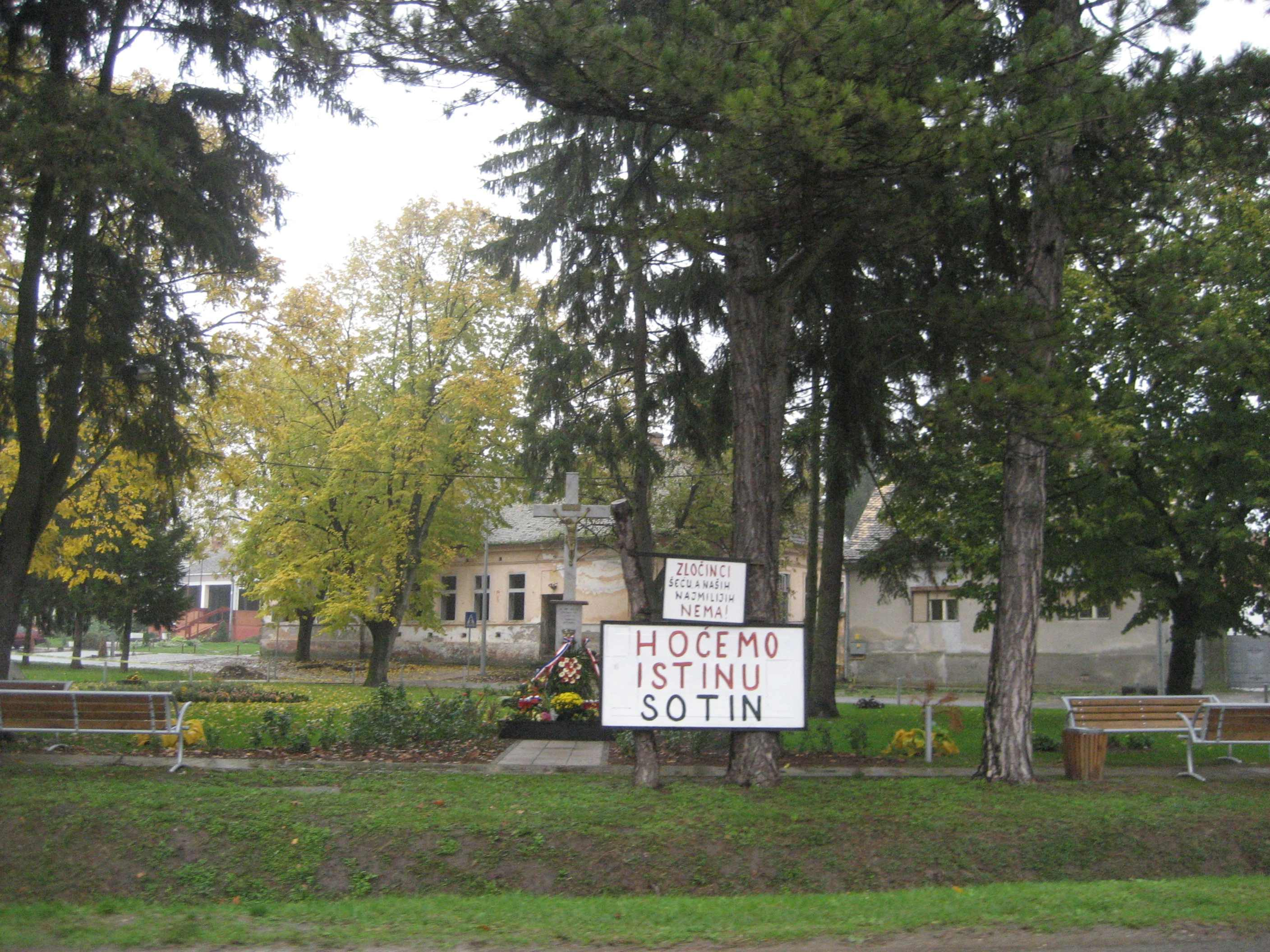 Sotin, Croatia:Relatives of croatian victims asking for the truth